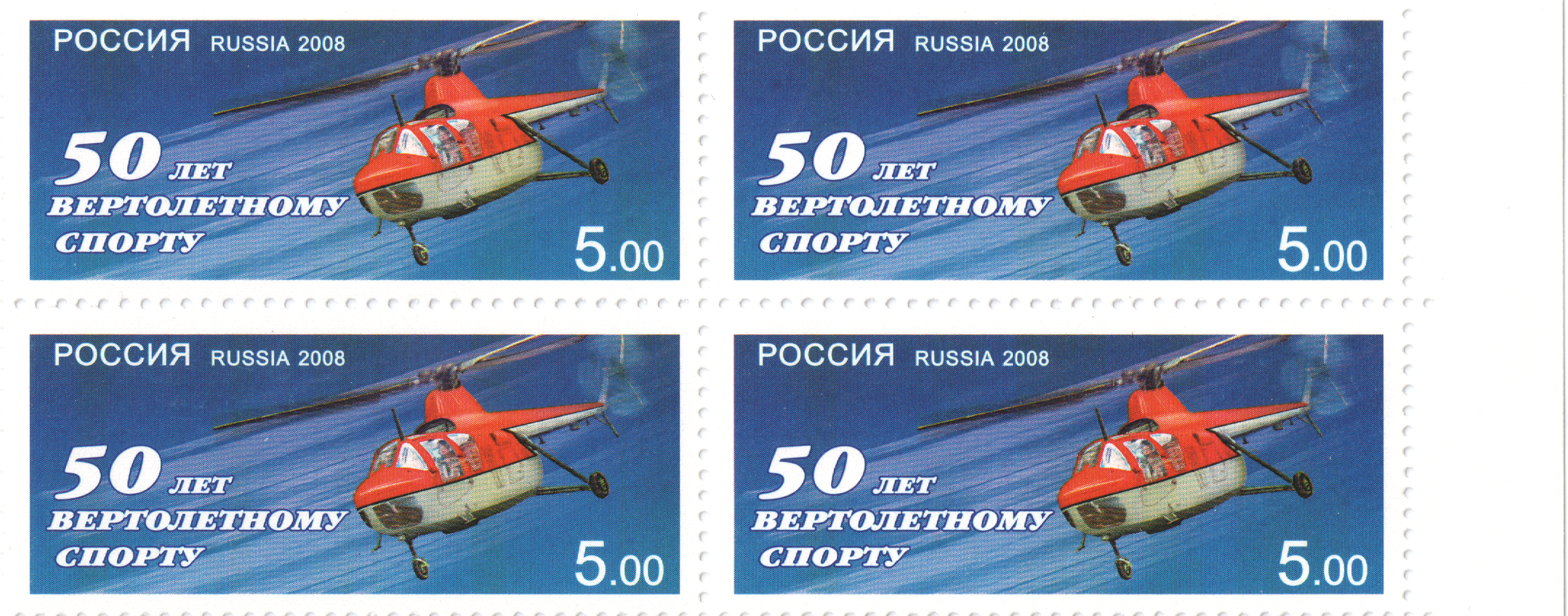 Russian postal stamp block (part 4 stamps) about 50-year anniversary of the helicopter sport in Russia. Cost 5 roubles.